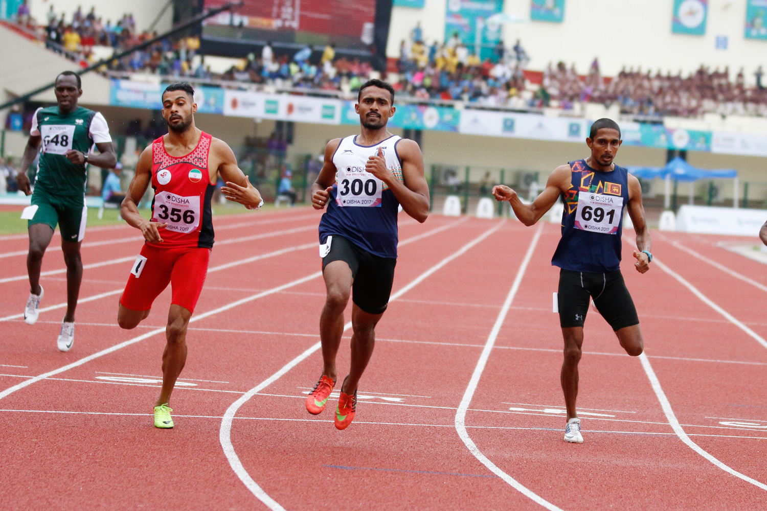 Athletes during 22nd Asian Athletics Championships in Bhubaneswar.